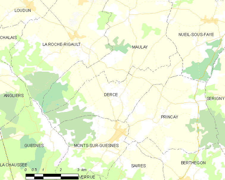 Map of French municipality Dercé